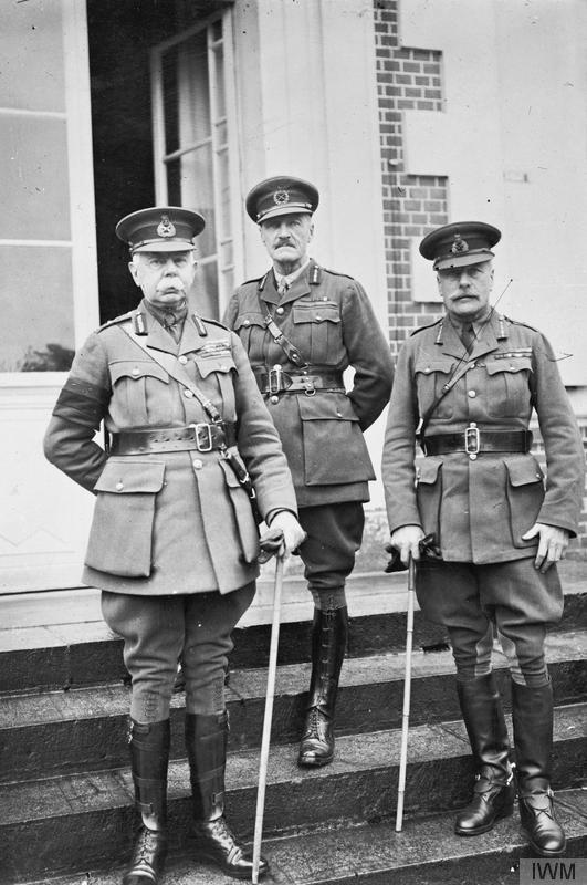 The Battle of Passchendaele, July-november 1917 Personalities: General Sir Herbert Plumer, Commander of the Second Army, General Sir Herbert Lawrence, Chief of the General Staff and Field Marshal Sir Douglas Haig standing on the steps of General Headquarters, Western Front.